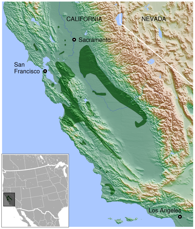 Geographical distribution of the California Tiger Salamander Ambystoma californiense. The map was created using the Generic Mapping Tools, GMT, version 5.1.2.